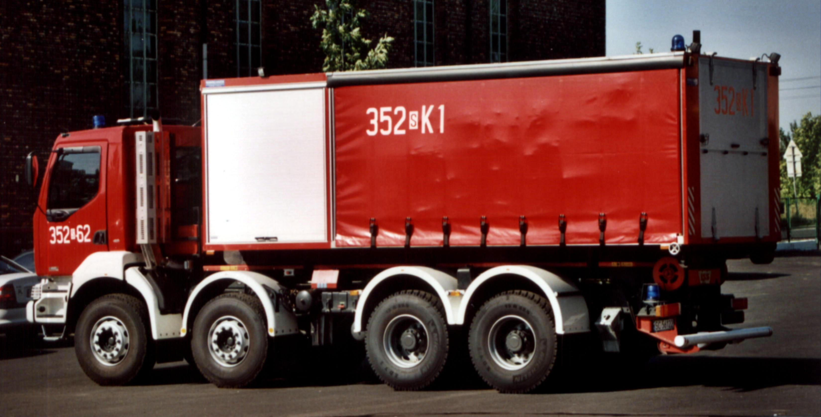 Polish fire engine Renault Kerax, for transporting of special containers, of Częstochowa Fire Brigade